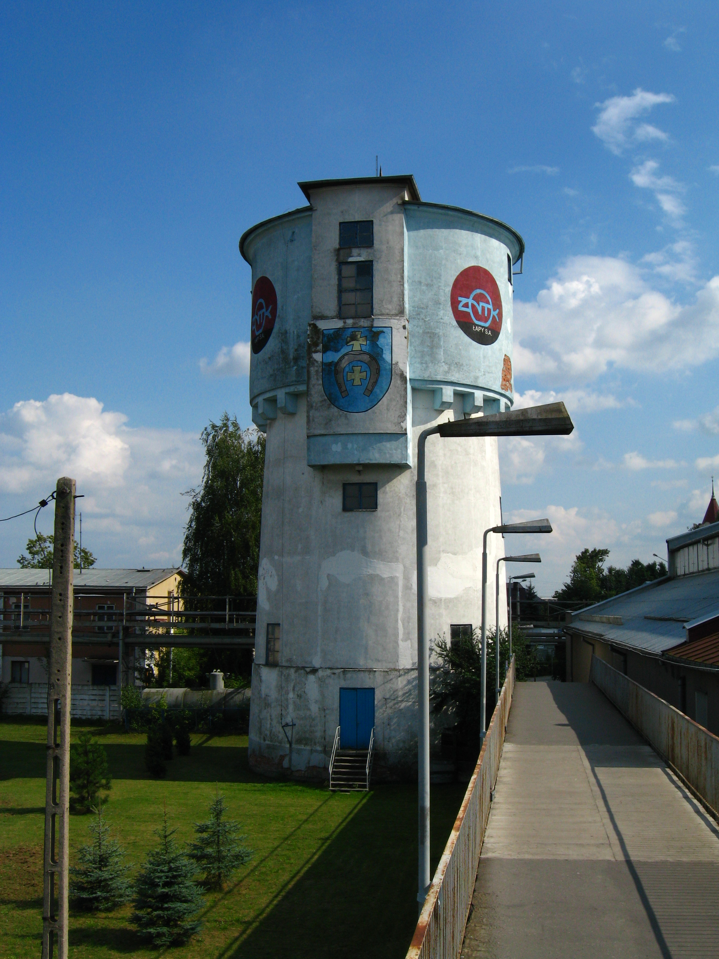 Water tower from the beginning of the 20th century